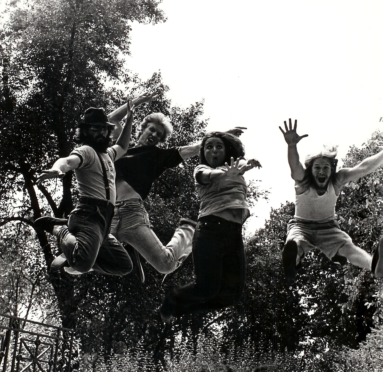 "Scubba Hey! cast photo: Paul Barrosse, Brad Hall, Julia Louis-Dreyfus and Rush Pearson (1981)